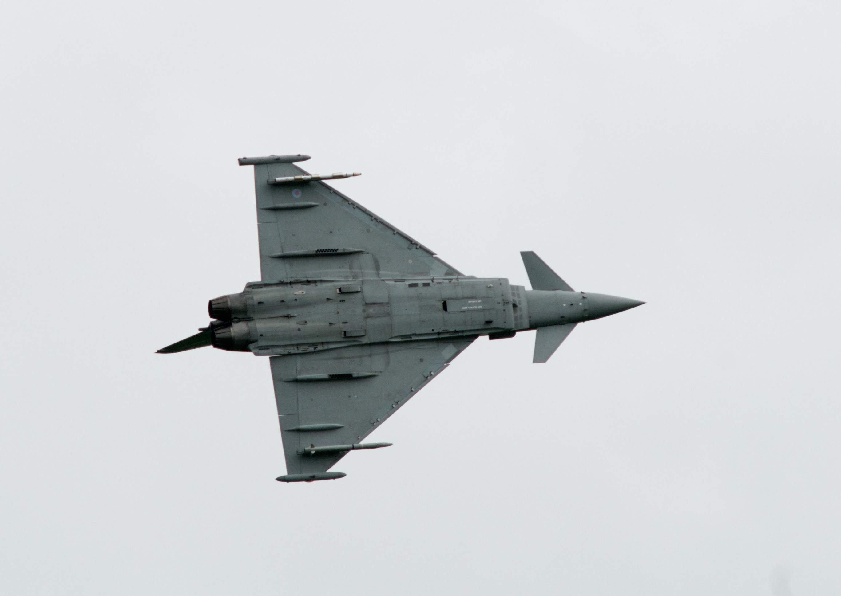 Eurofighter Typhoon